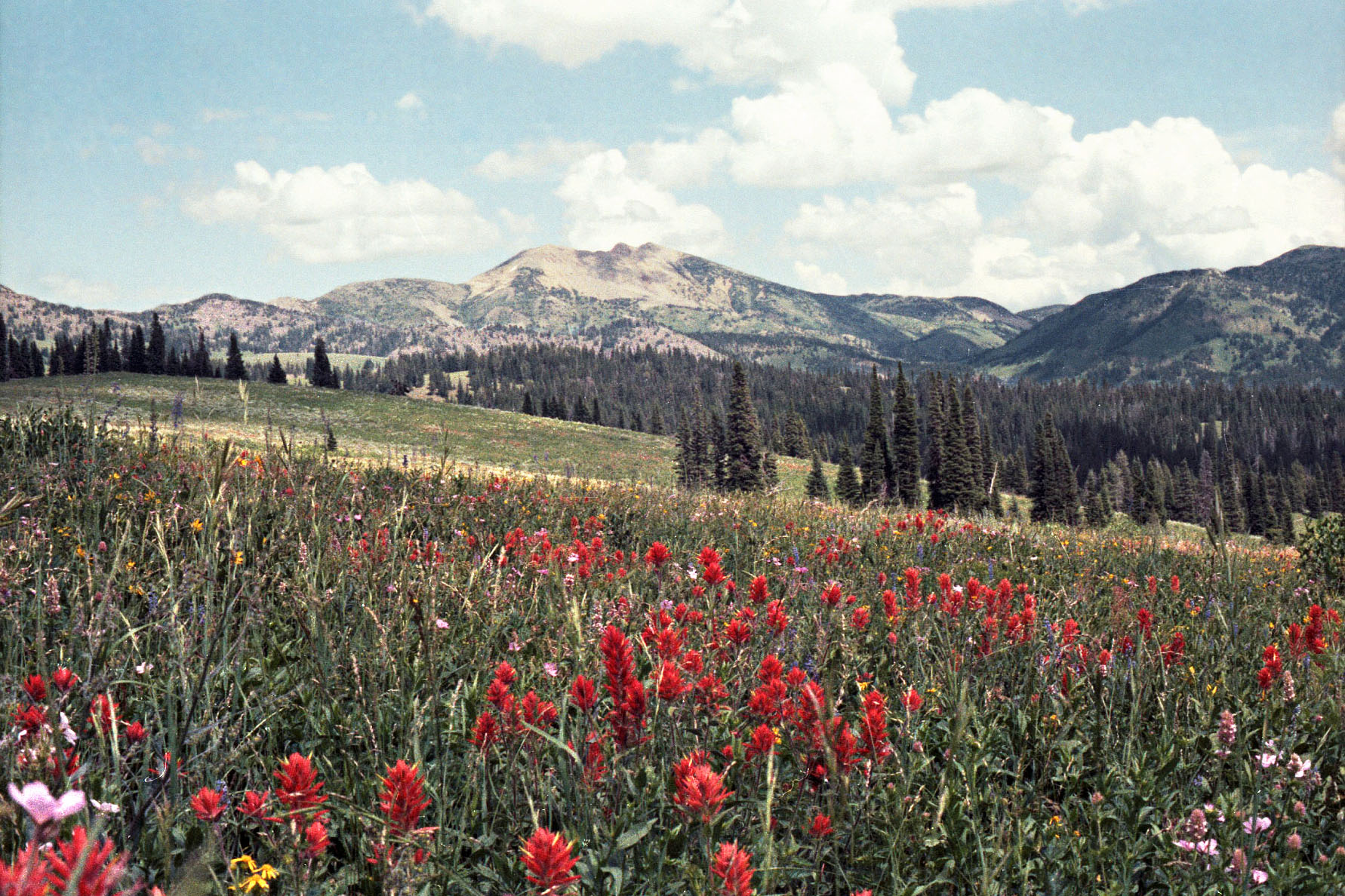 Mt. Jefferson in Island Park, Idaho with Indian Paintbrush flowers.